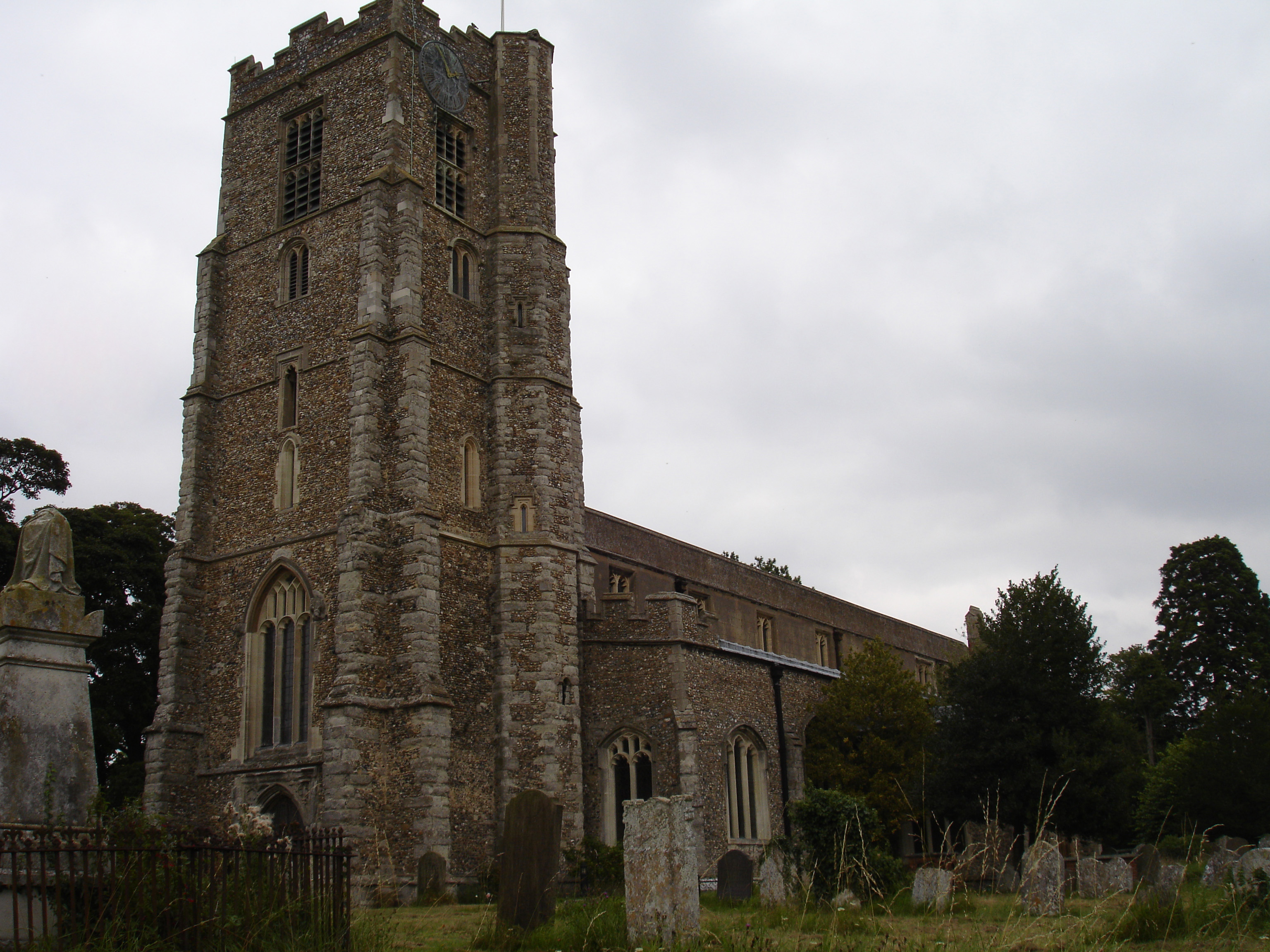 Photograph of Hatfield Broad Oak Priory, Essex, England